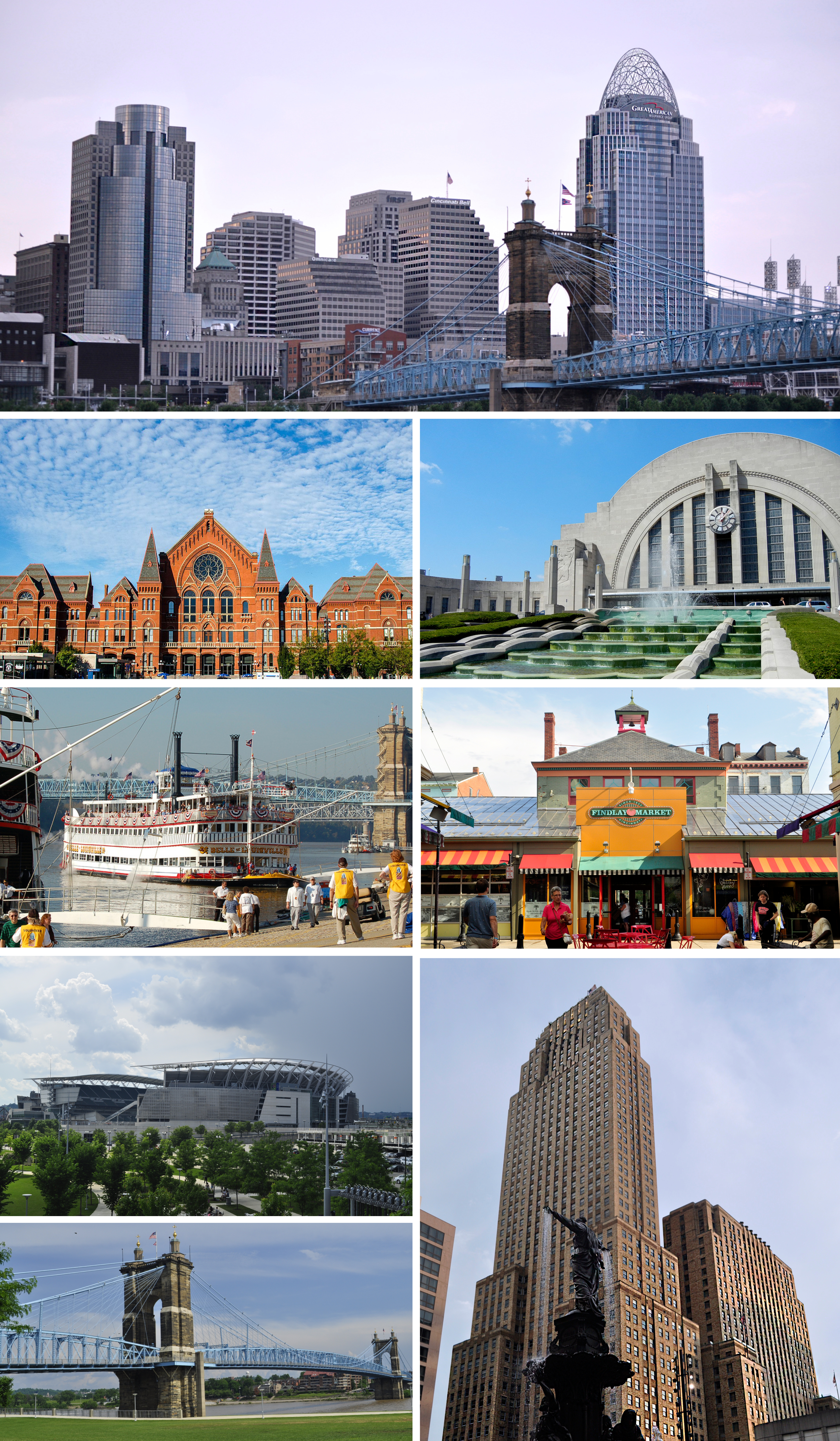 Montage of Cincinnati, Ohio